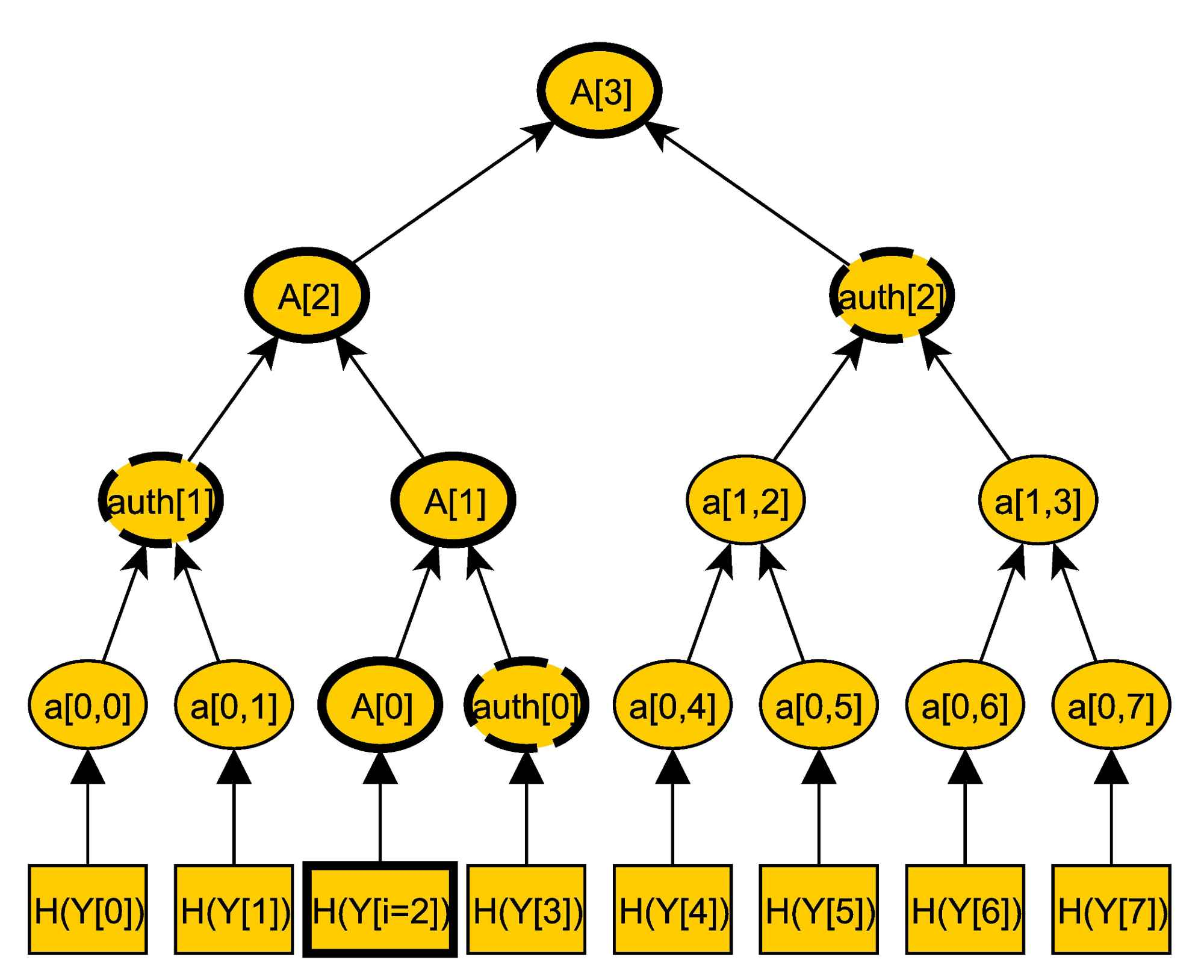 A Merkle Tree with 8 leafs and authentication path.